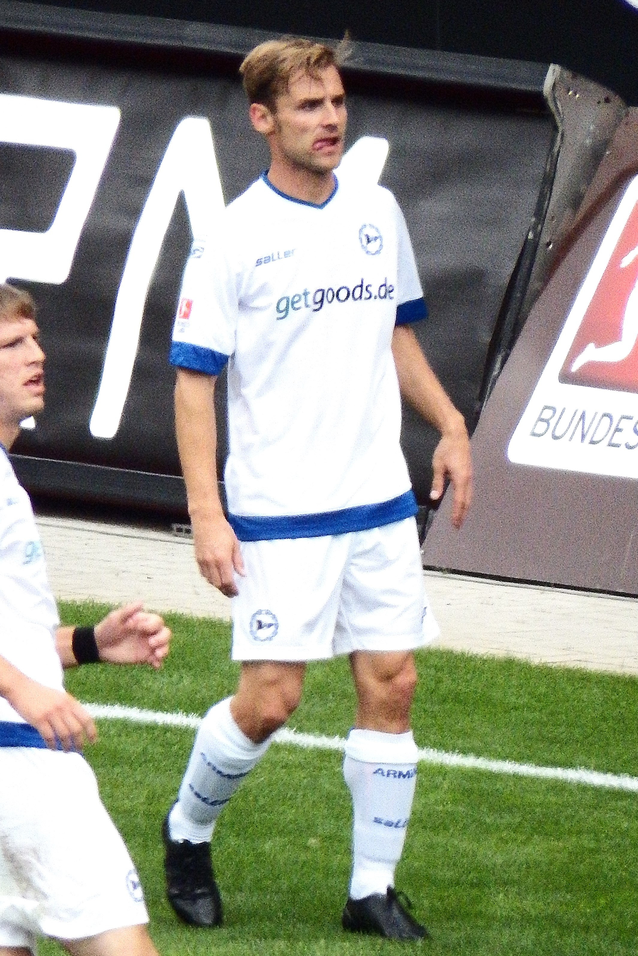 Sebastian Hille as Player of Arminia Bielefeld